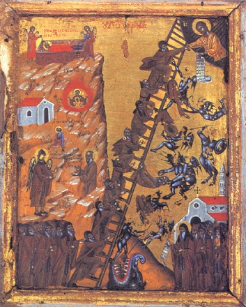 The Ladder of Paradise icon described by John Climacus.